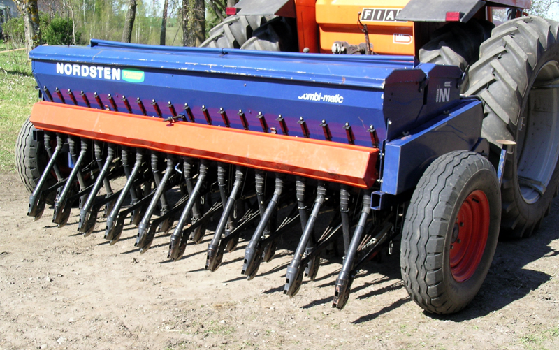 Sowing machine / Seed drill for grain and rapeseed, brand is Nordsten (brand of Kongskilde-company)